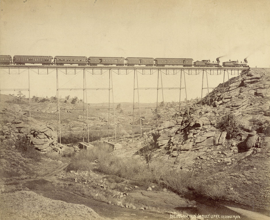 "Dale Creek Iron Viaduct, Promontory, Utah." Albumen print. 23 x 28,4 cm